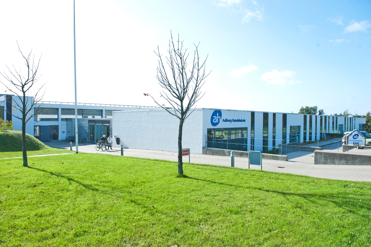 Aalborg Business CollegeDansk: Aalborg Handelsskole